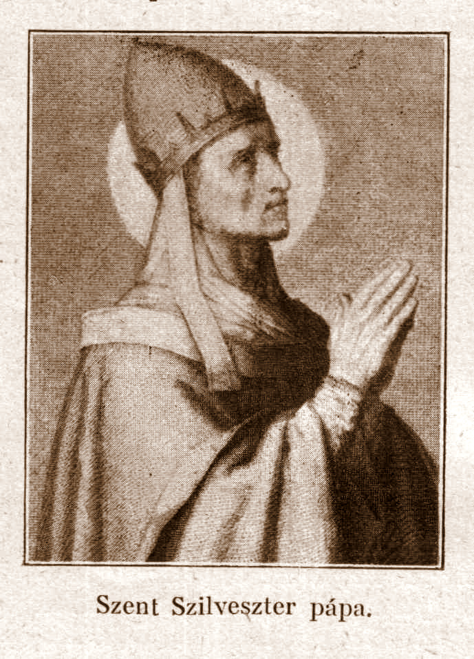 Picture of Pope Silvester I from book of year 1900, I scanned, simple work